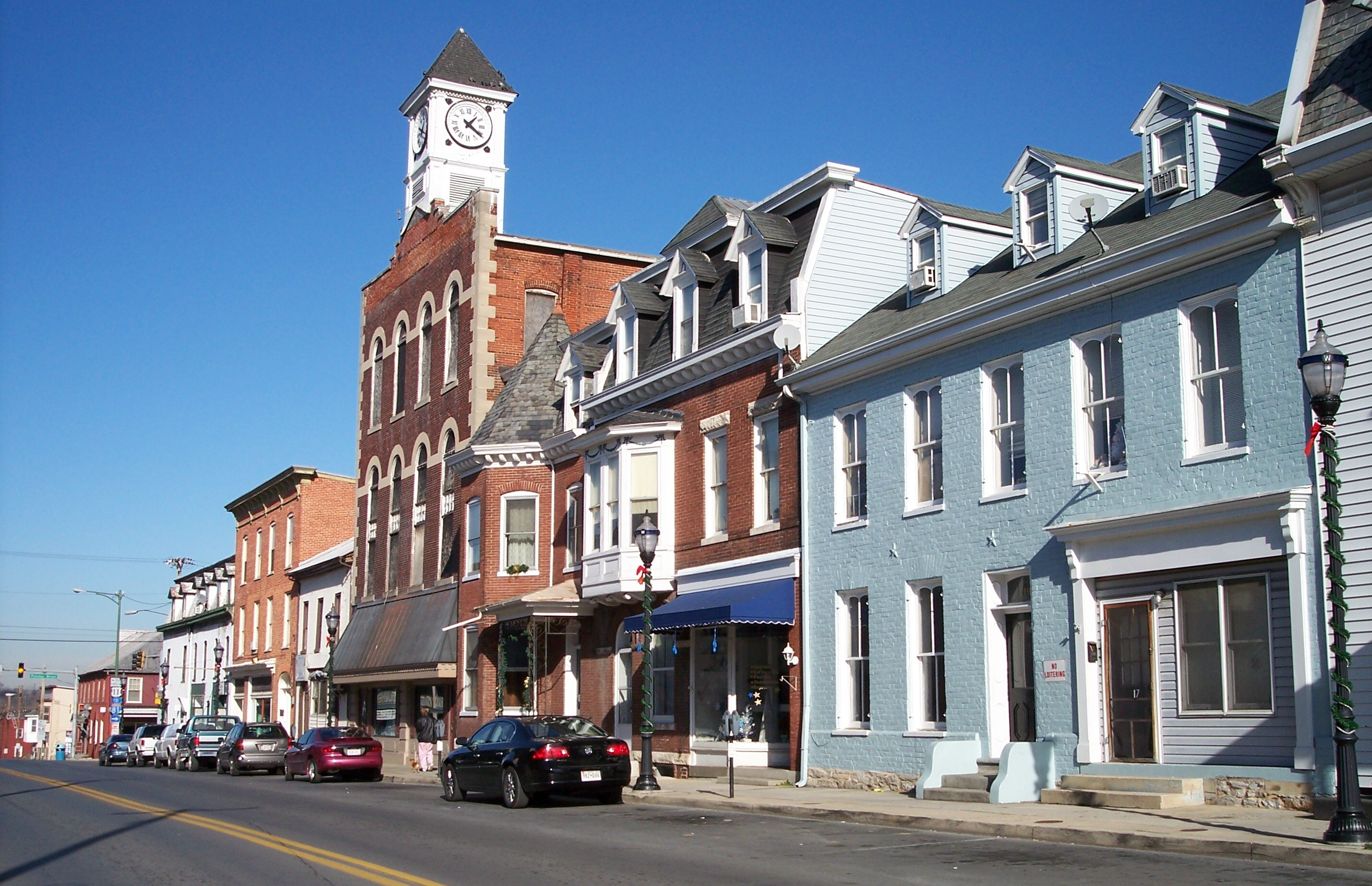 View north on Conococheague Street (Maryland Routes 63 and 68) in Williamsport, Maryland